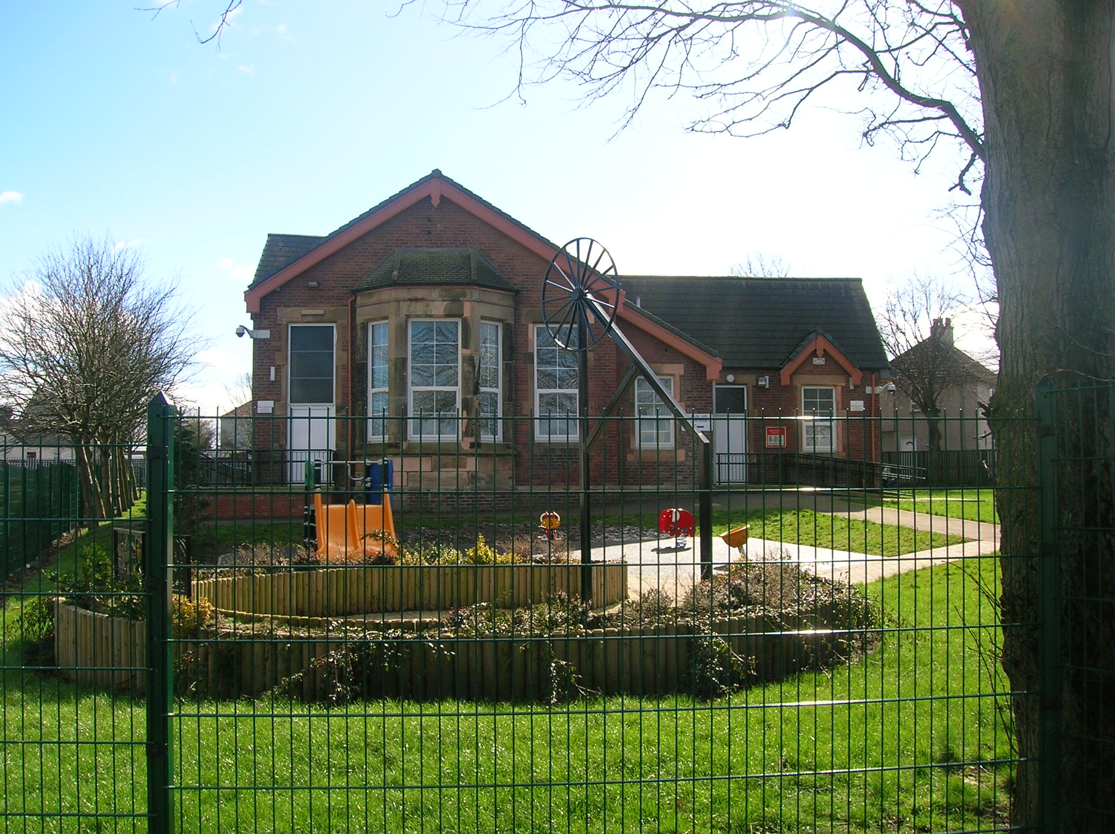 The Springhill Institute in North Ayrshire, Springside, 2007. Scotland.